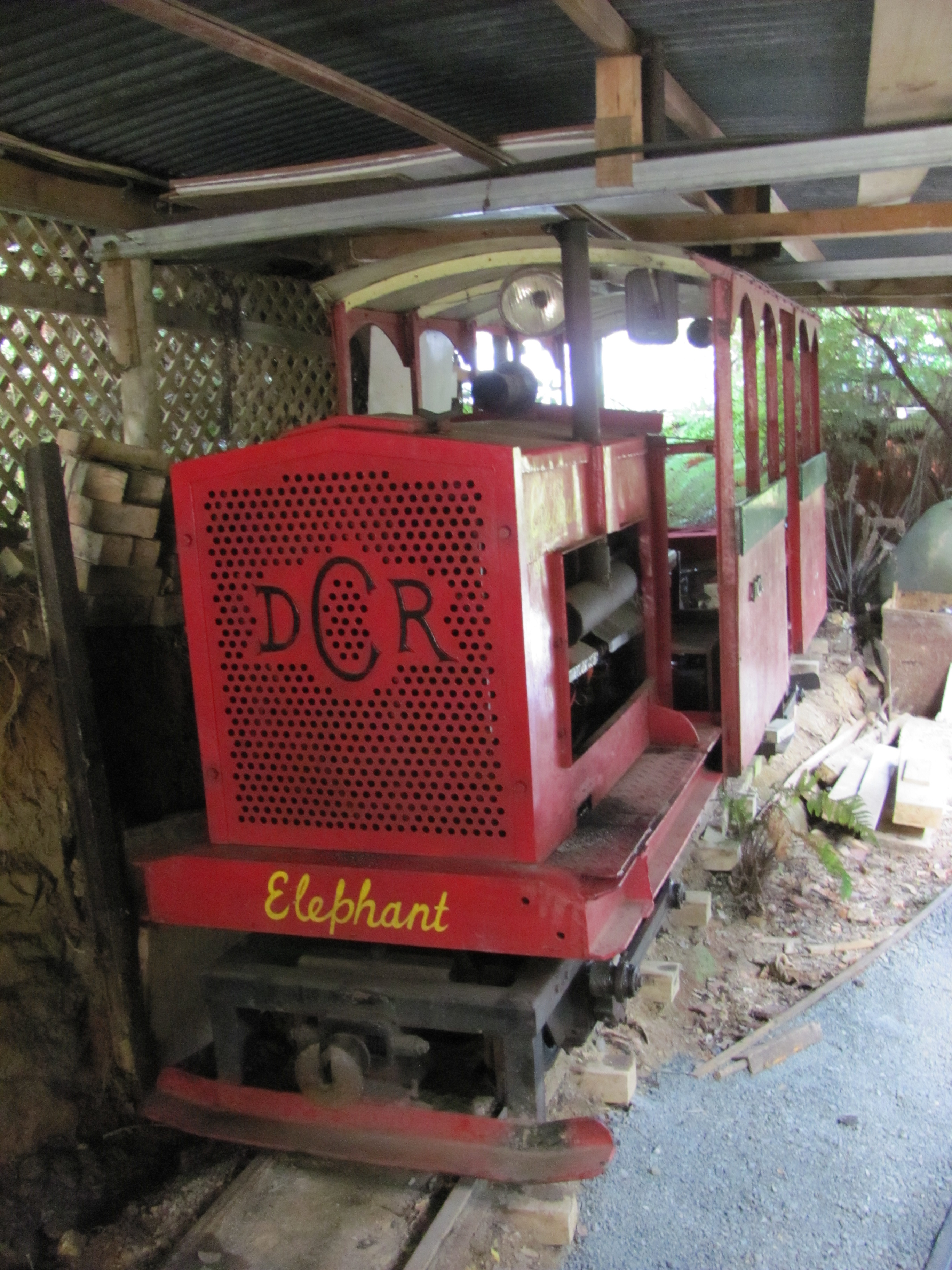 DMU "Elephant" of DCR